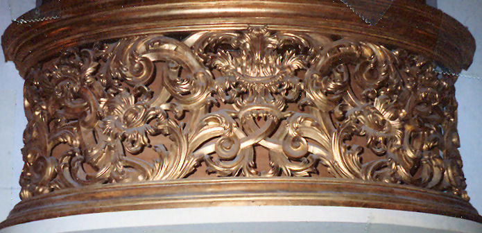 Detail from the Ark of the main Synagogue (Scuola Levantina) at Ancona, Italy.